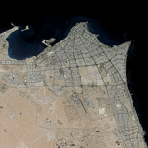 Kuwait City by SPOT Satellite